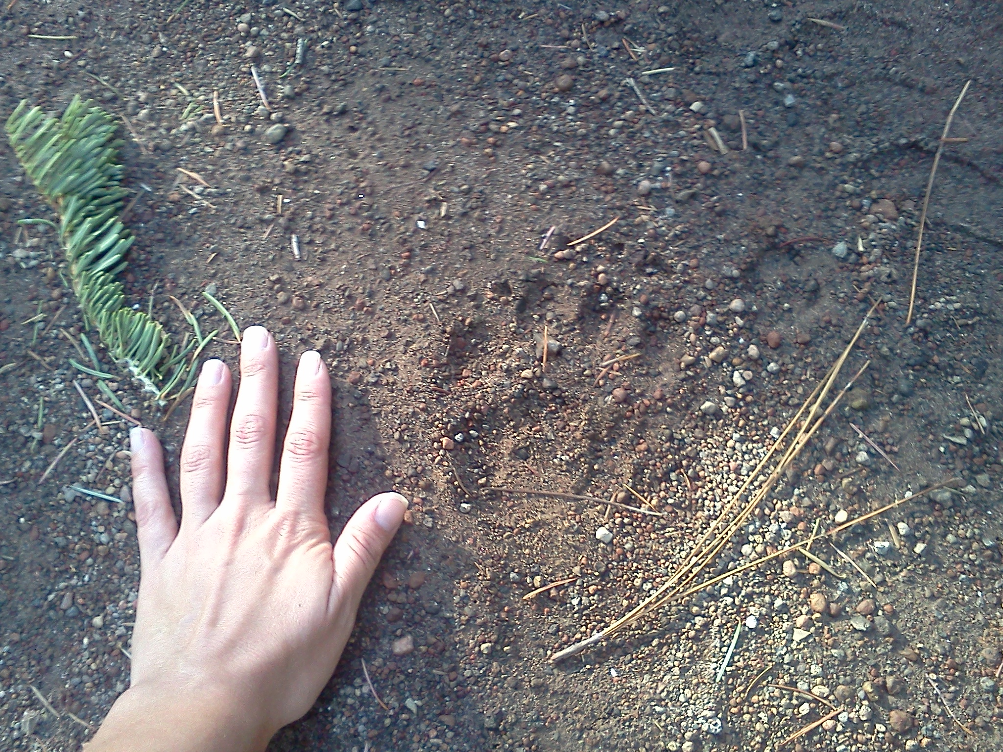 Bear print Tramway Rd